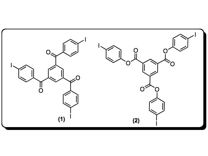 no